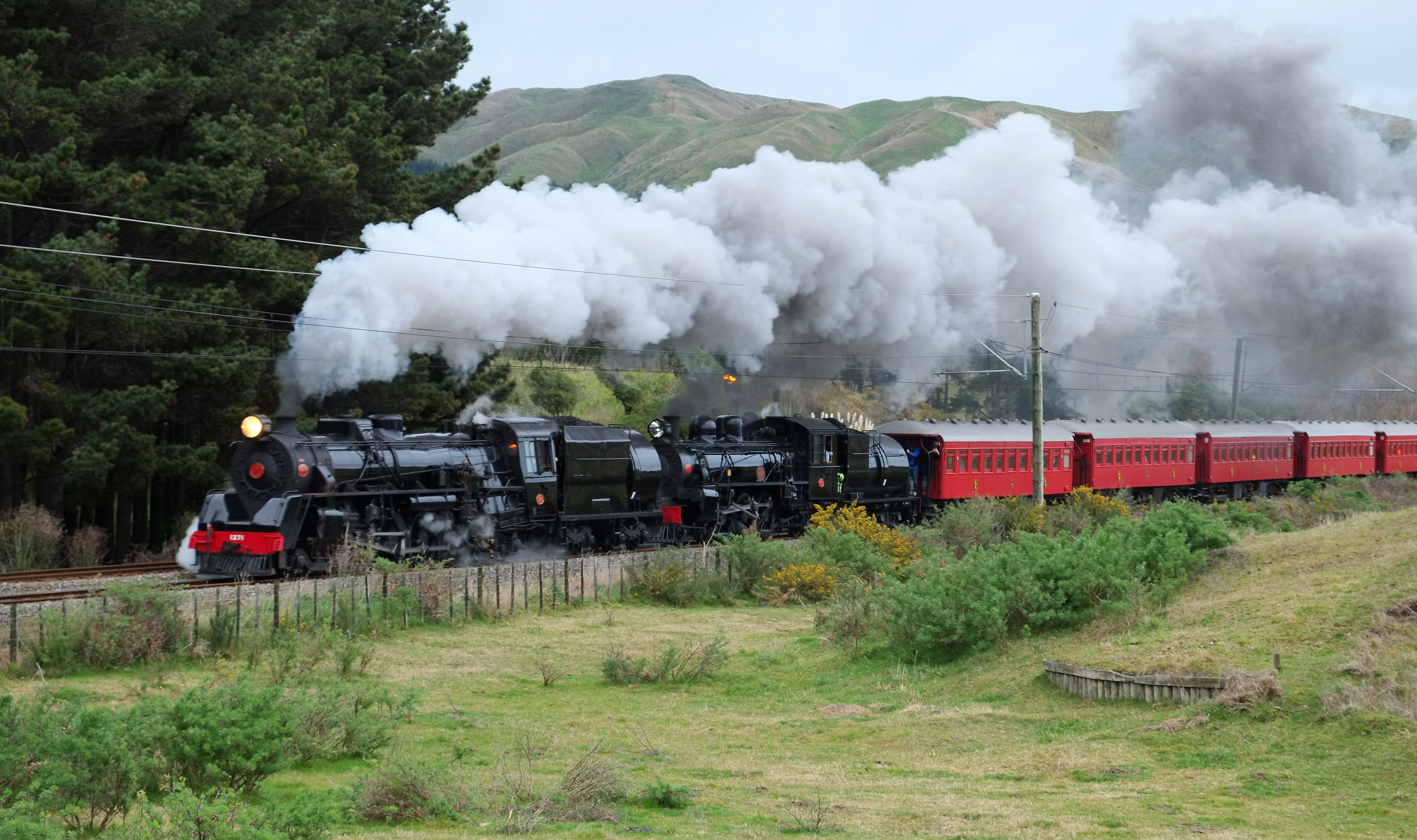 Steam locomotives Ja 1271 and Ab 608 'Passchendaele' pulling historic carriages on Steam Inc's 'Double Thunder' excursion